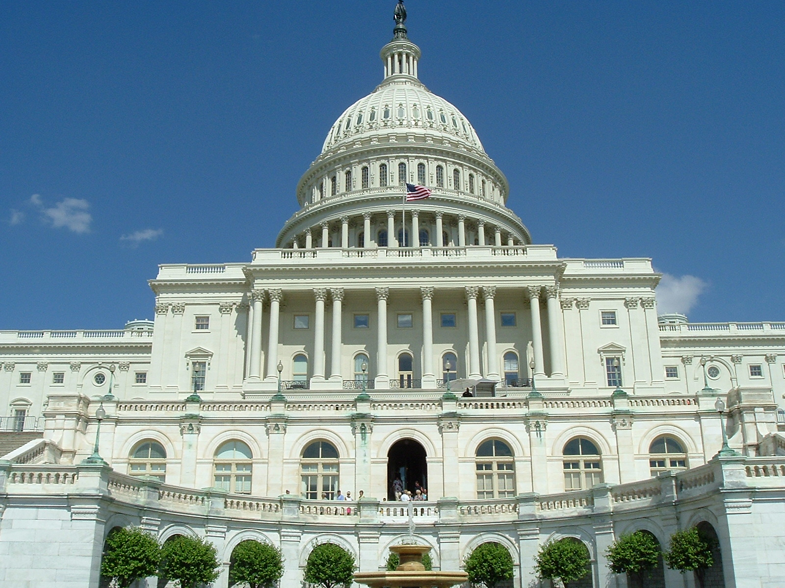 A Photo of the Capitol Building in Washington DC. Author: Vcelloho